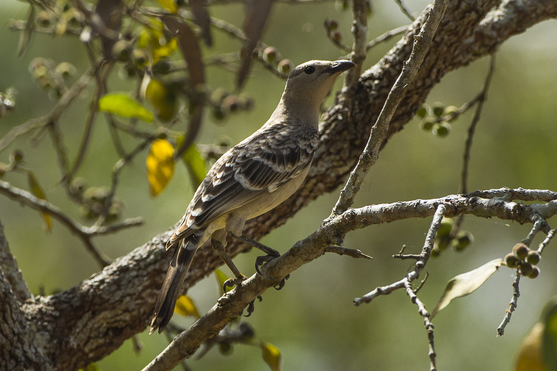 Great Bowerbird - Mareeba Wetlands - Queensland_S4E9116